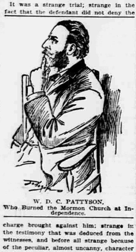 Defendant William D.C. Pattyson